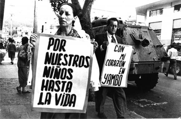 Parents of the disappeared Restrepo brothers.